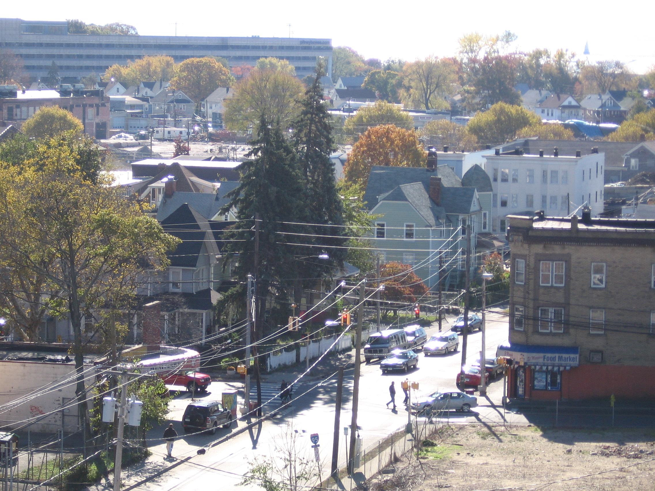 View of Atlantic Street in the South End of Stamford, Connecticut, looking southeast from the Stamford (Metro-North station) parking garage roof. The scene shows typical elements of the neighborhood: the empty lot near the train station, modest old homes, the edge of the Yale & Towne factory building (far left) and a modern office building of Pitney Bowes, a longtime employer in the neighborhood.